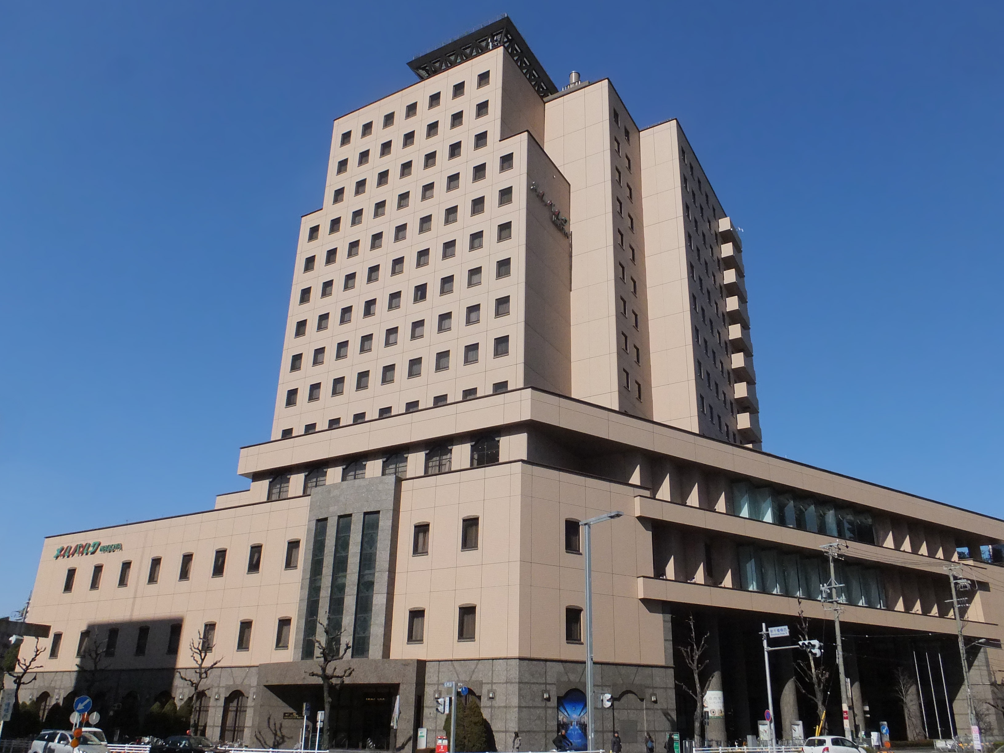 Mielparque Nagoya (メルパルク名古屋), located at 3-16-16 Aoi, Higashi-ku, Nagoya, Aichi, Japan